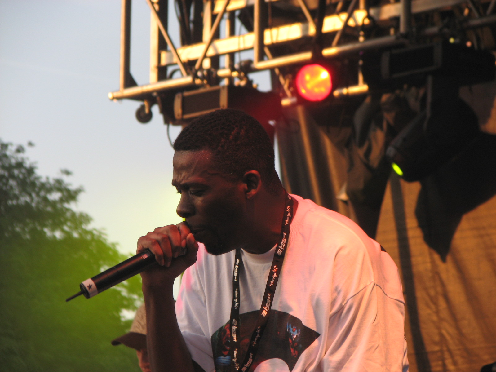 GZA at the Pitchfork Music Festival.